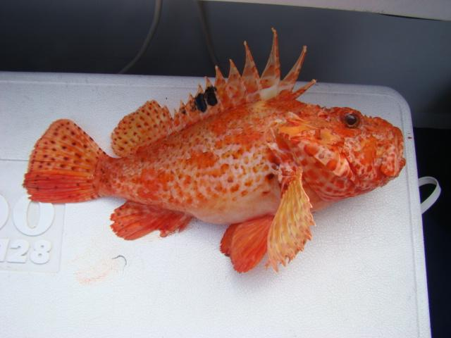 Scorpaena scrofa caught in Ferraria, Azores, Portugal.